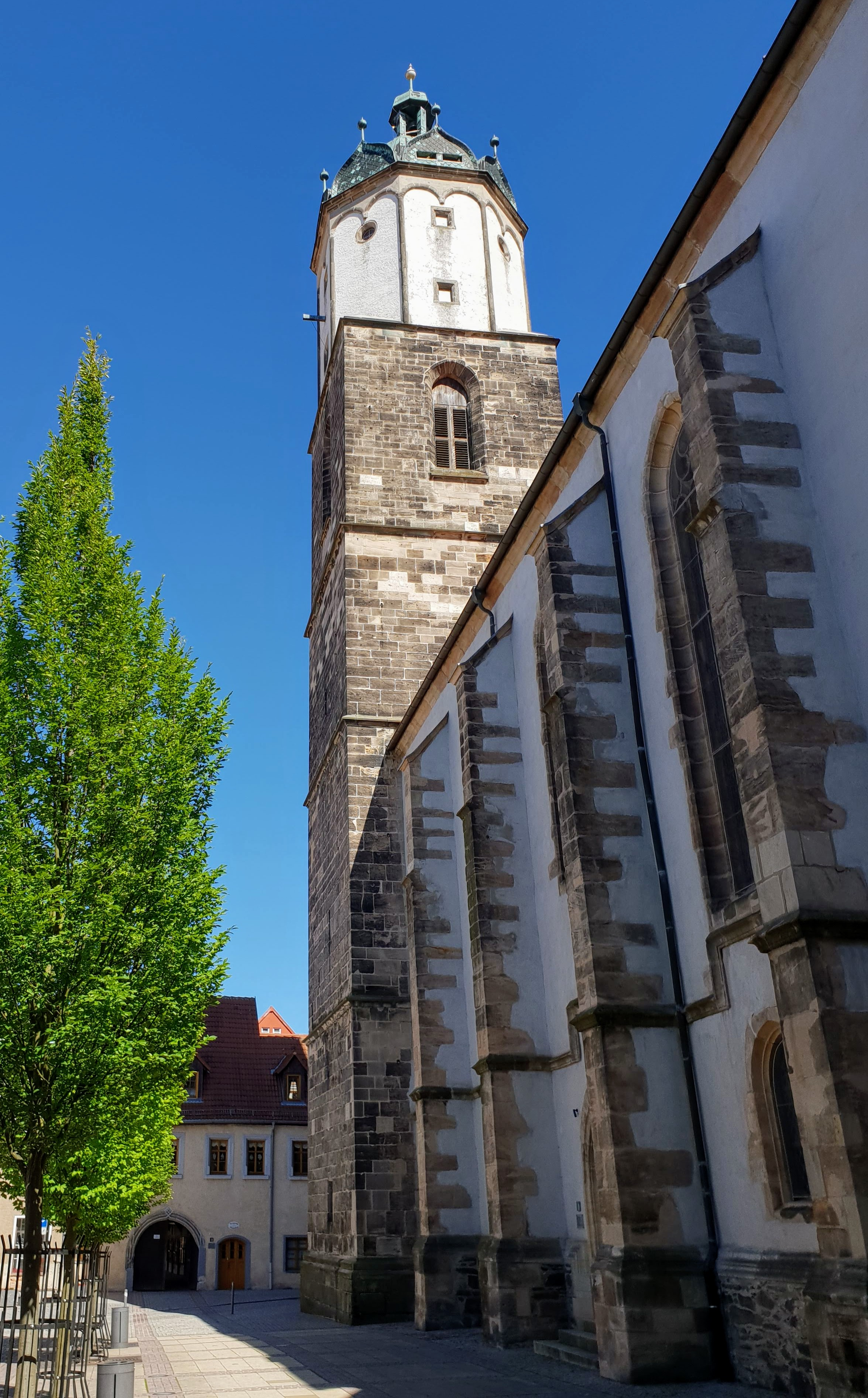 Church St. Johannis in Neustadt an der Orla, Germany.